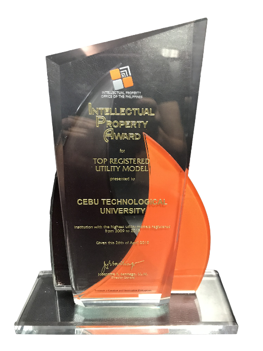 CTU registered the highest number of utility models in 2019.